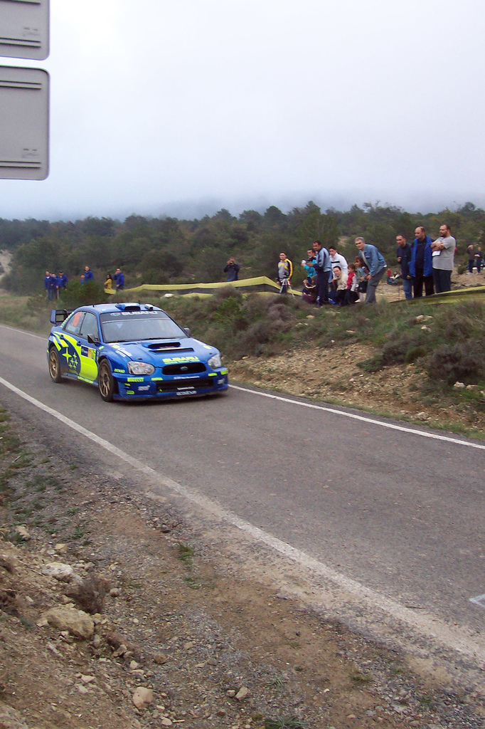 Chris Atkinson driving a Subaru Impreza WRC on SS12 of the 2005 Rally Catalunya.